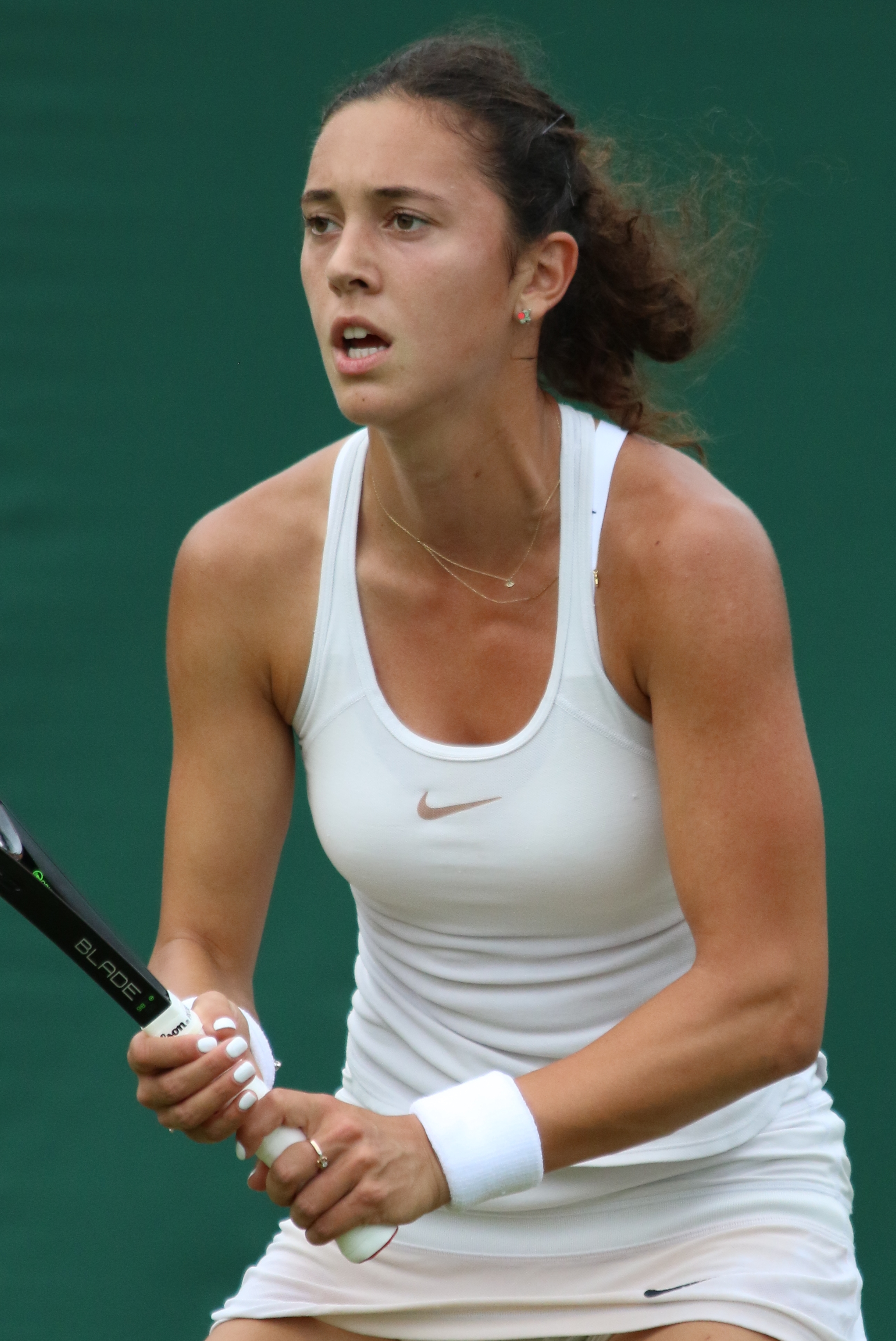 2019 Wimbledon Qualifying Tournament.